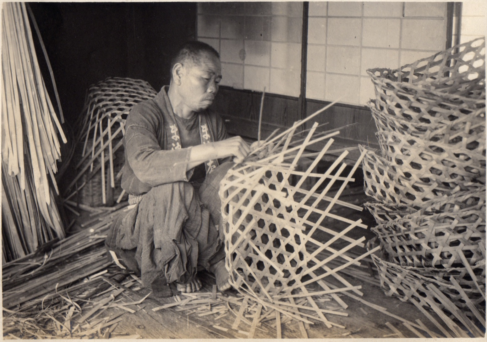 Basket Weaver in Japan. My spouse's uncle Elstner Hilton took this photo in Japan between 1914 and 1918.